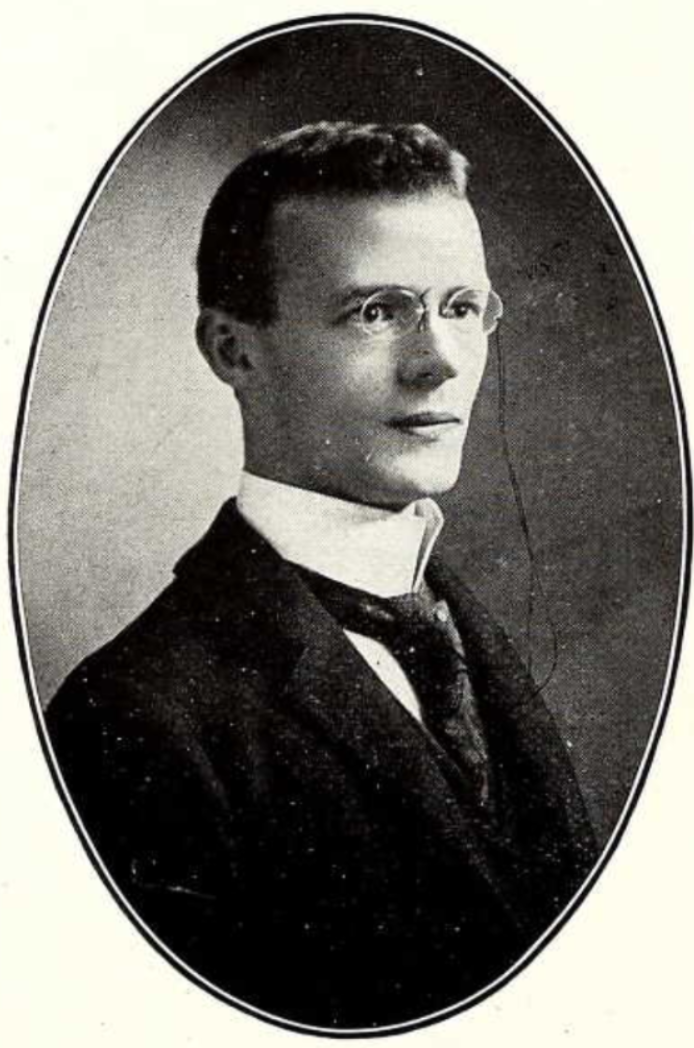 Photograph of James M. Farr